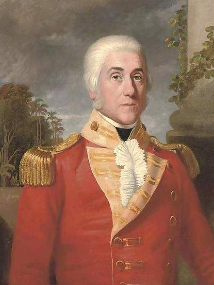 Potrait of Major General George Wahab (1752-1808) of 17th Regiment, Madras Infantry, by Thomas Hickey (1741–1824), 1808.